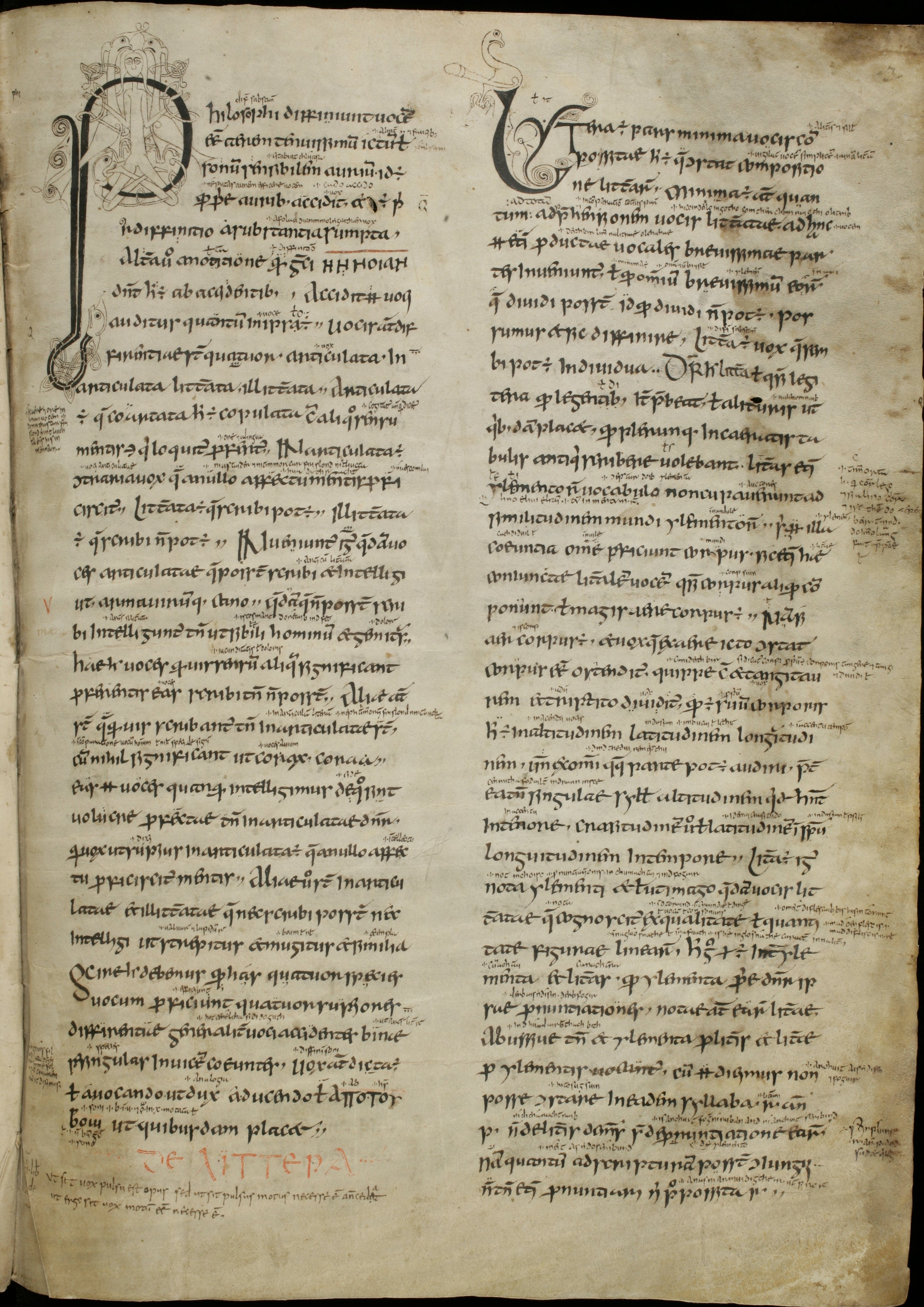 The beginning of the „Institutio de arte grammatica“ in the manuscript St. Gallen, Stiftsbibliothek